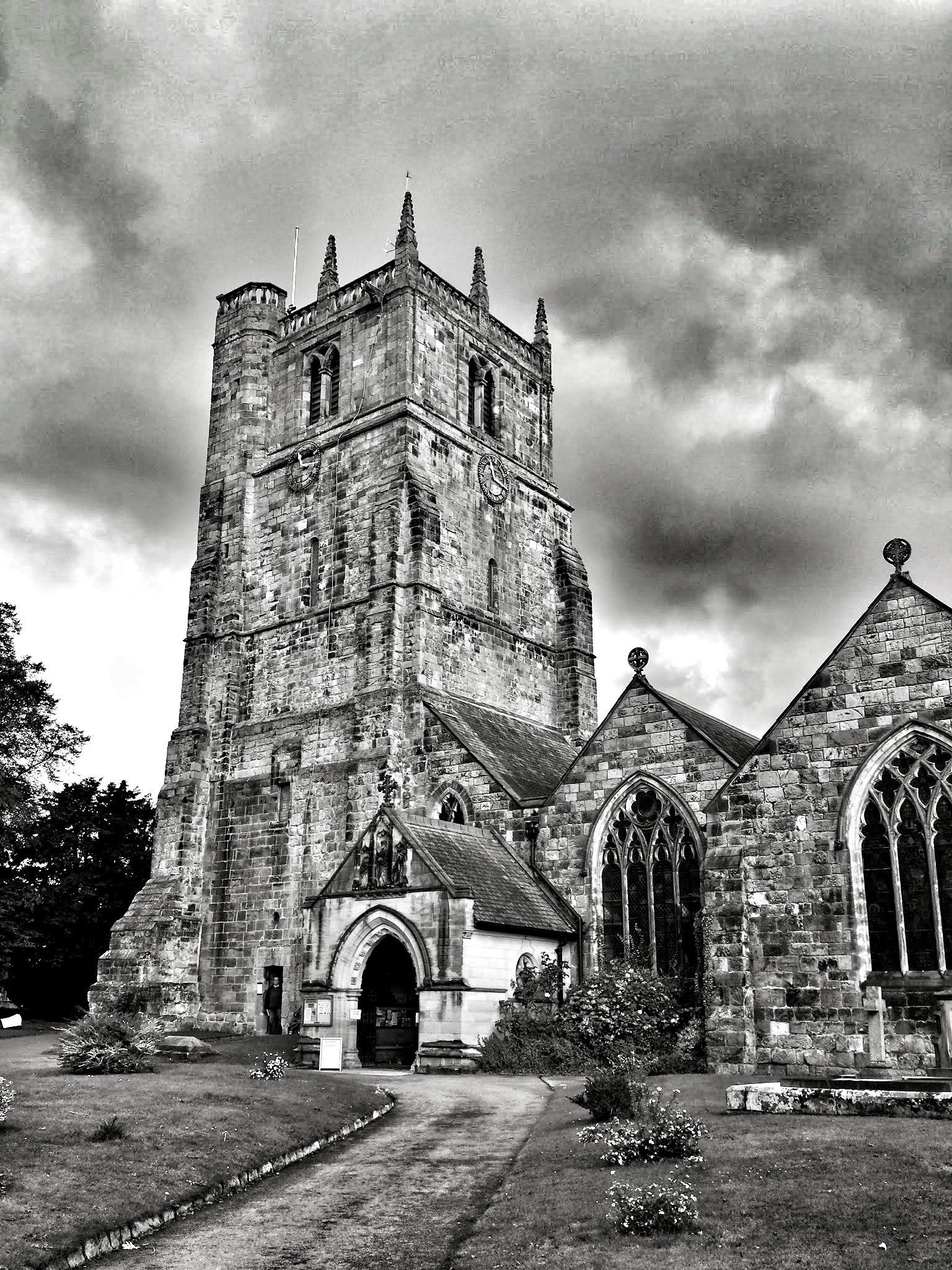 Church of St Oswald